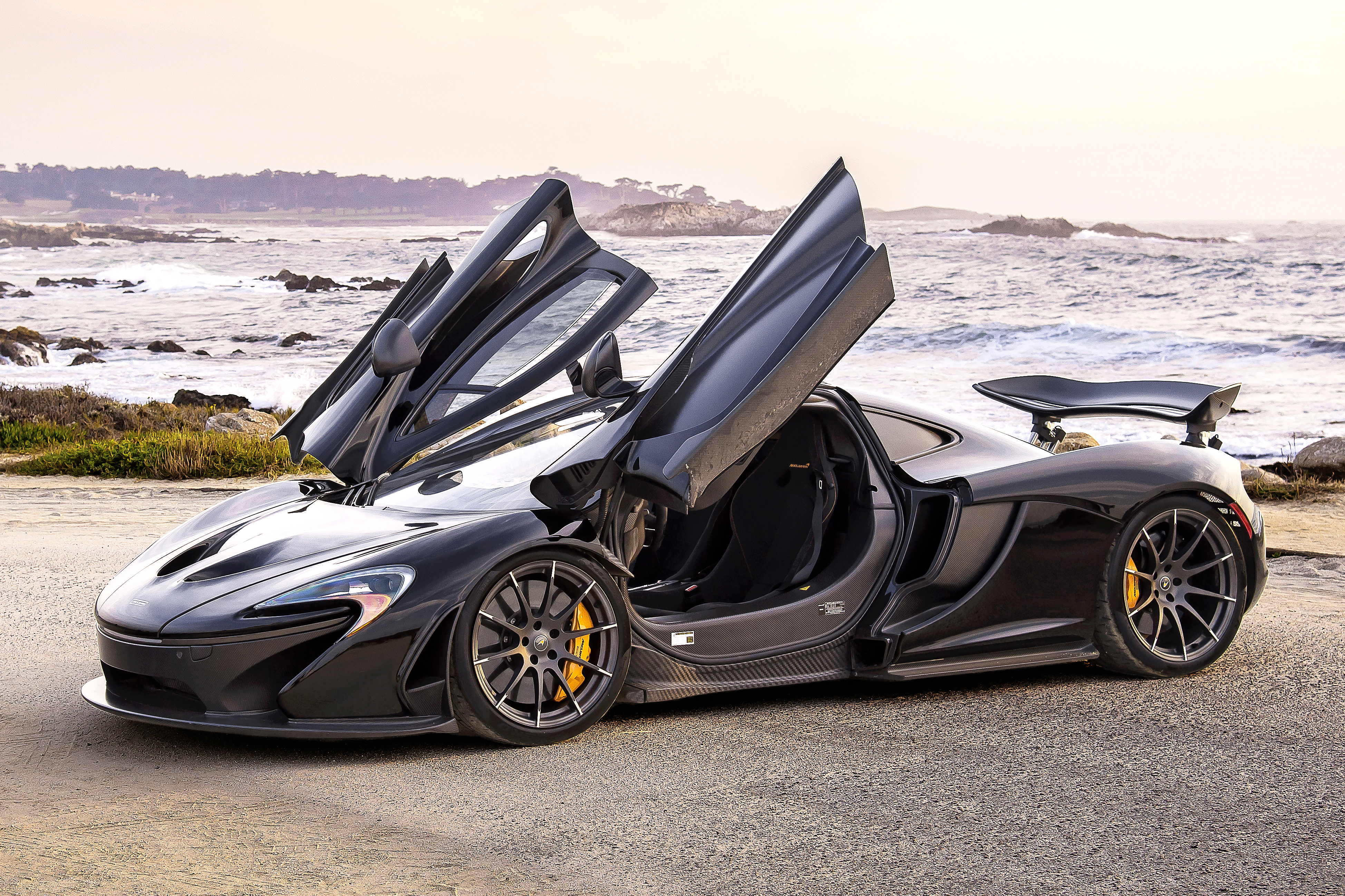 Black McLaren P1 on 17 Mile Drive during Monterey Car Week 2015.